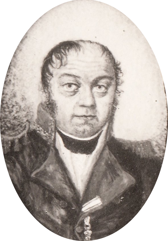 Christen Elster (1763-1833), Country Governor of Nordland and Nord-Trøndelag